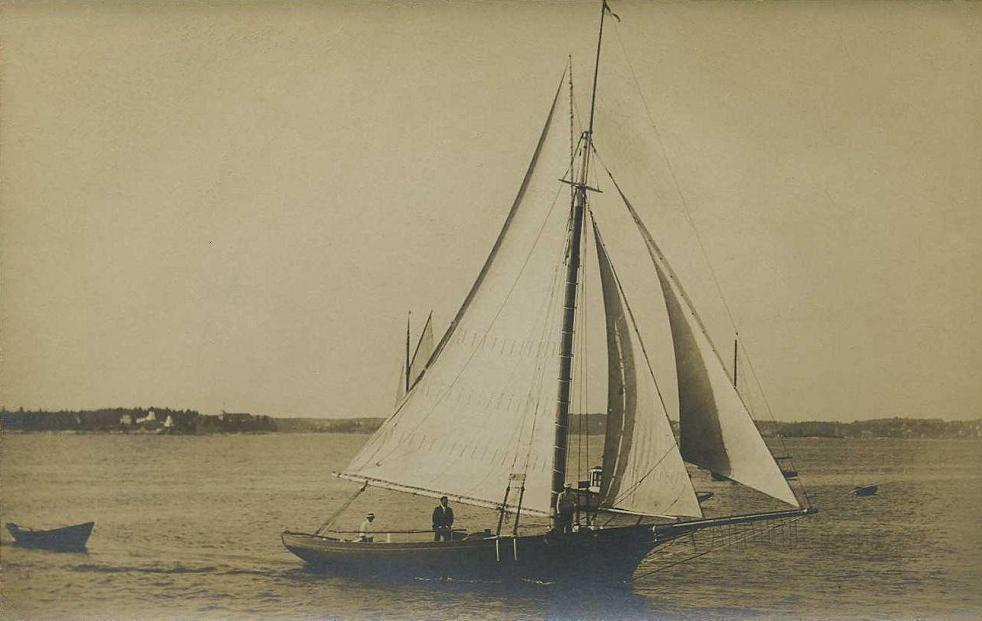 Friendship Sloop; from a c. 1920 postcard published by McDougall & Keefe, photographers; Boothbay Harbor, Maine. Owl's Head Lighthouse is at left, marking the entrance to the harbor at Rockland, Maine.